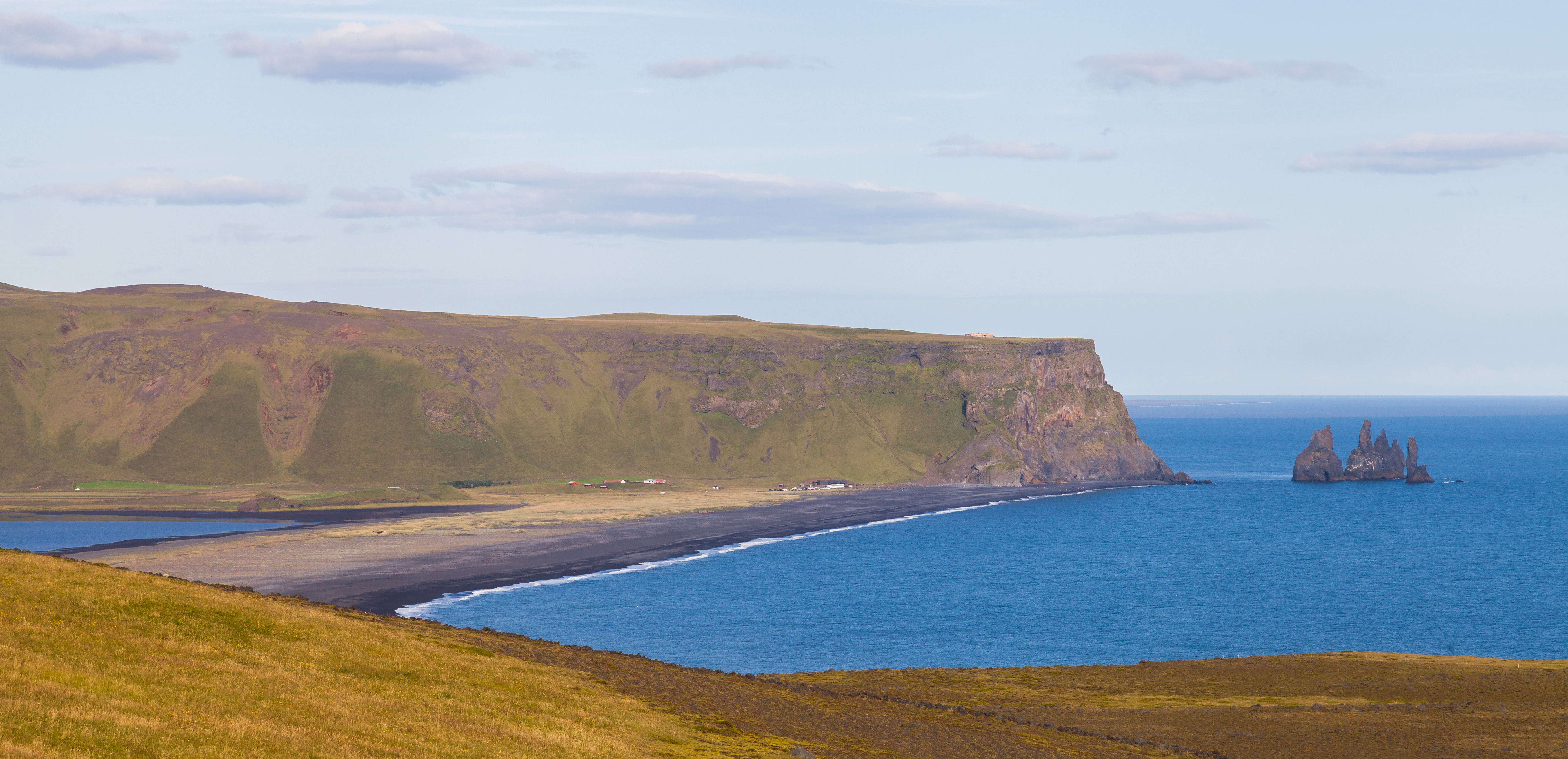 Reynisfjara, Suðurland, Iceland